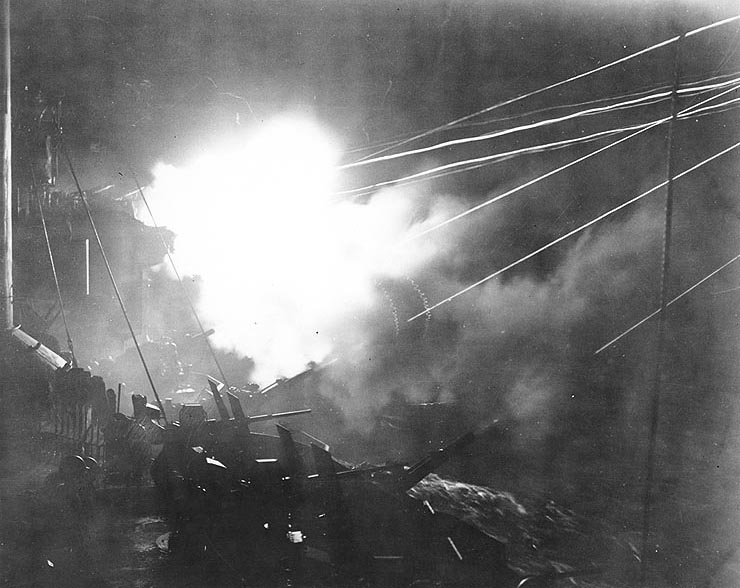 The U.S. Navy light cruiser USS Boise (CL-47) shelling the coast of New Guinea in early 1944. The photo is dated 10 February 1944, but may have been taken during the Madang-Alexishafen bombardment of 25-26 January 1944. This view looks forward on the starboard side from the midships 20mm gun gallery. Note tracers, which appear several feet in front of gun muzzles. Those from the four starboard side 5/25 guns have a higher trajectory than the tracers fired from the forward 6/47 gun turrets. Tracers from the 6-inch guns appear to wobble slightly.